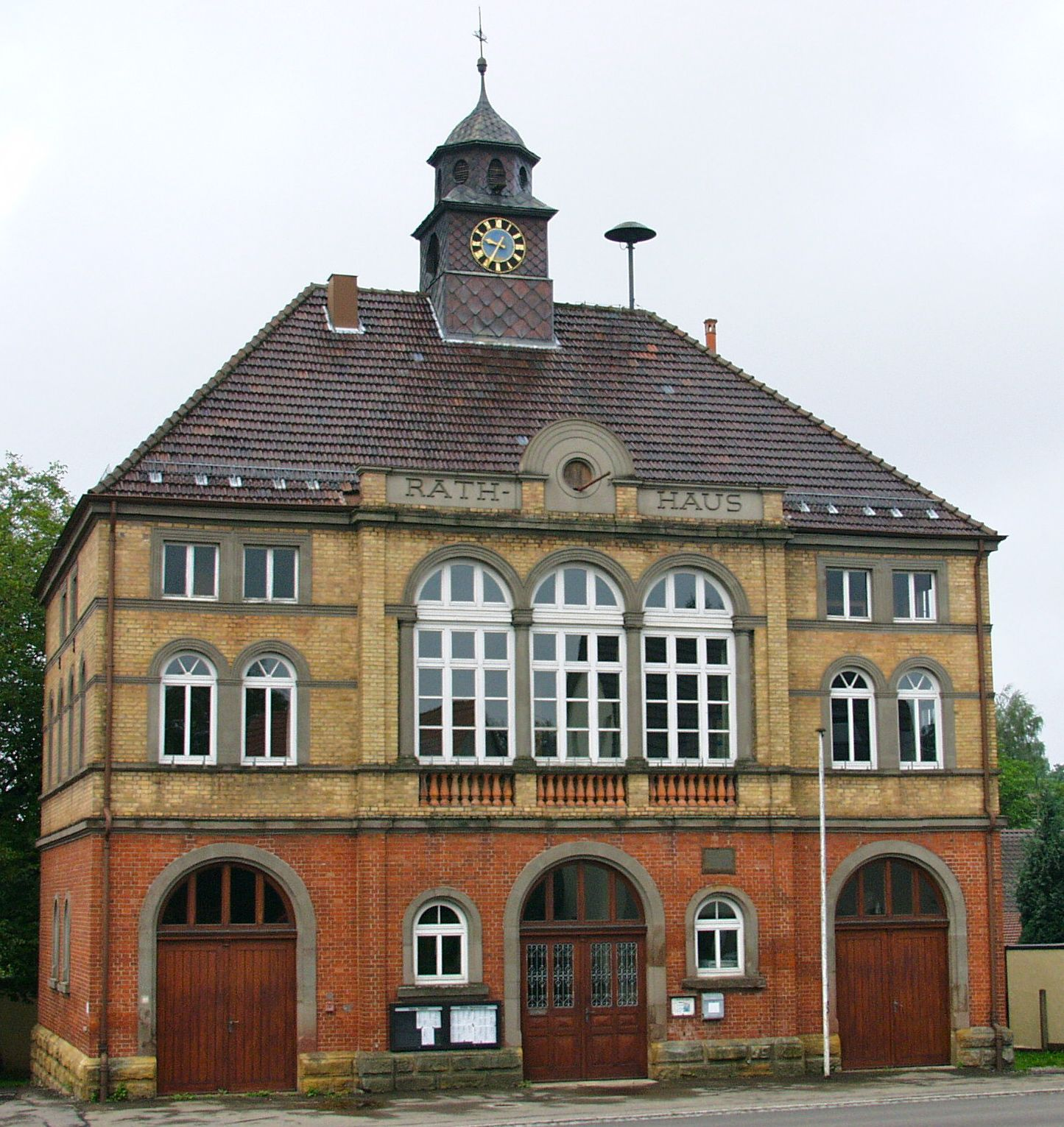 Former town hall of Pfahlbronn, municipality of Alfdorf